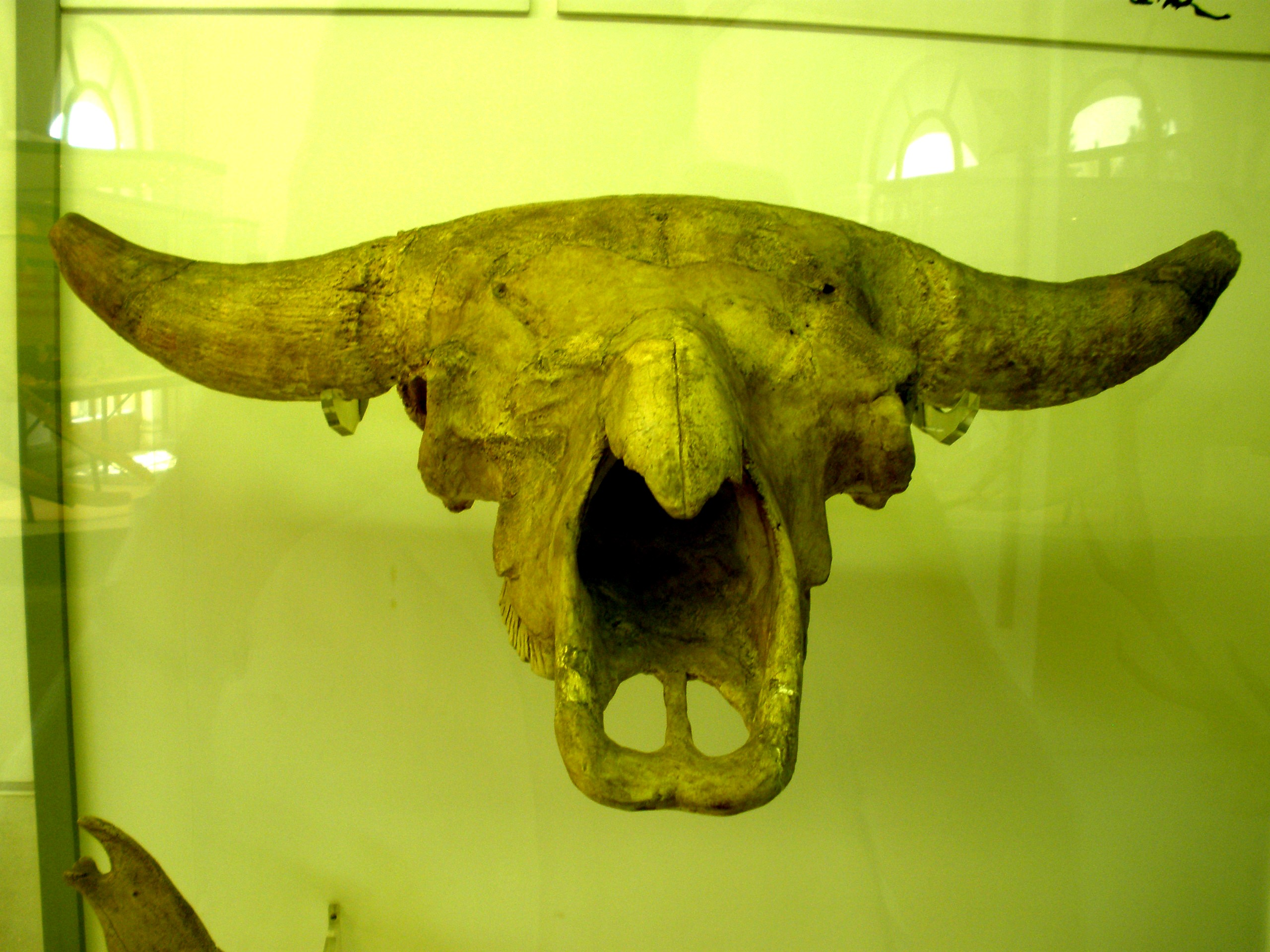 Took the photo at Museo di Storia Naturale di Verona